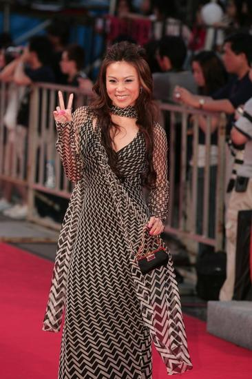 Tanya Chua at 17th Golden Melody Awards Starwalk